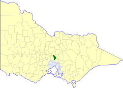 Location of the Shire of Kilmore within Victoria.